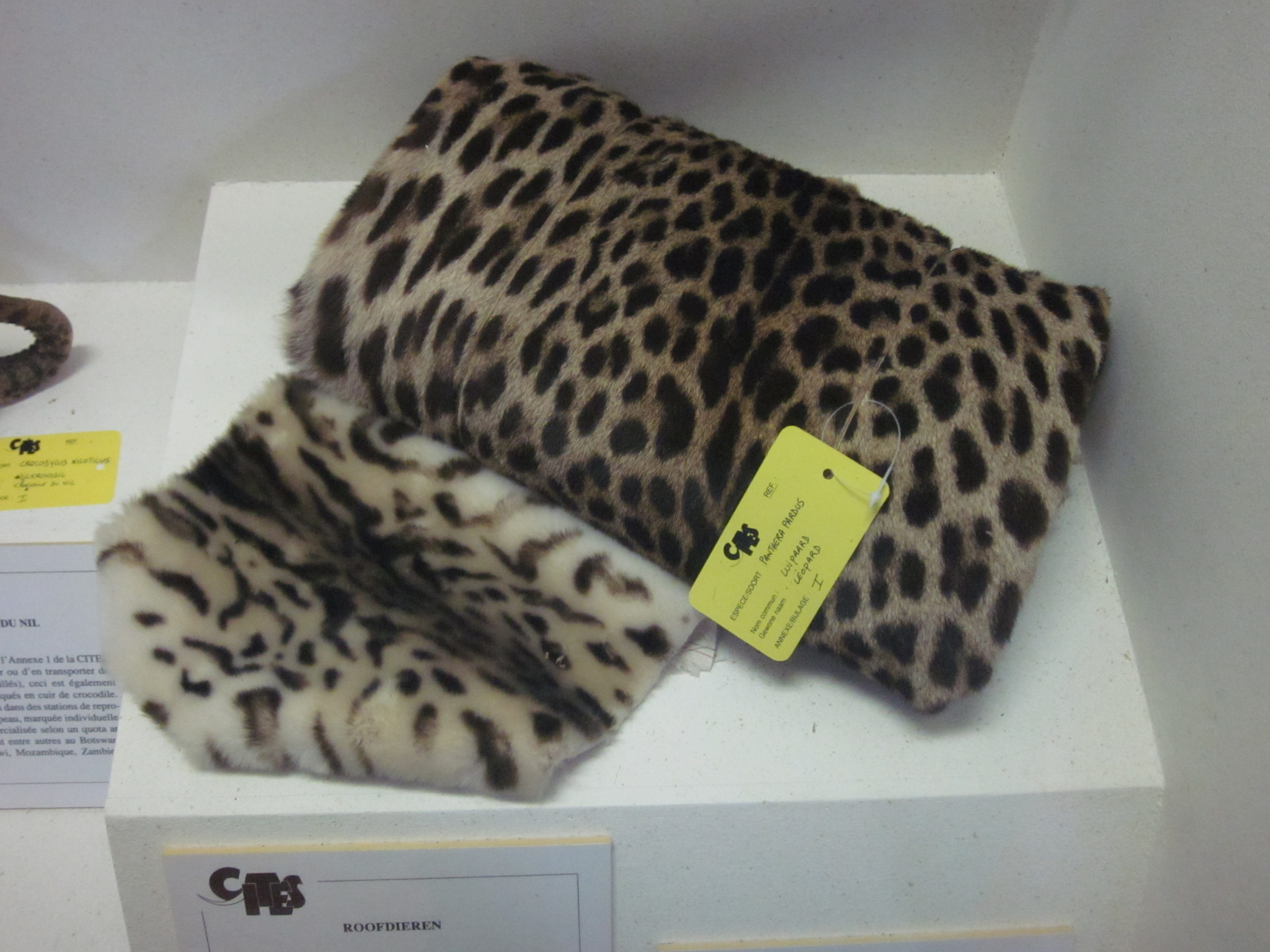 Leopard pelt illegally imported and seized by Belgian customs and a part of a leopard pattern printed lambskin. In Royal Museum for Central Africa, Terveuren.